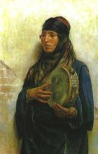 An Oriental Beauty